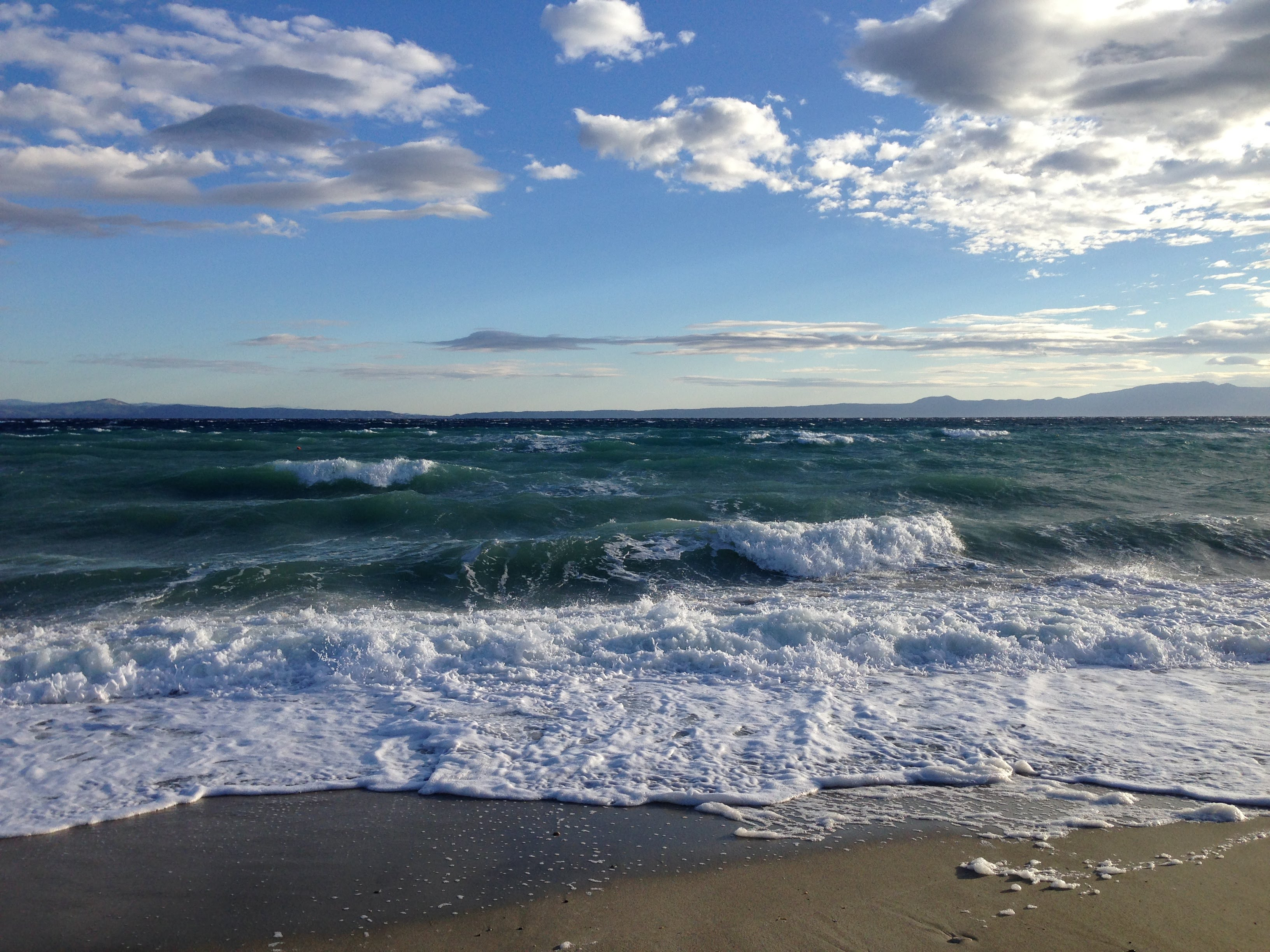 Polychrono Beach 2018.